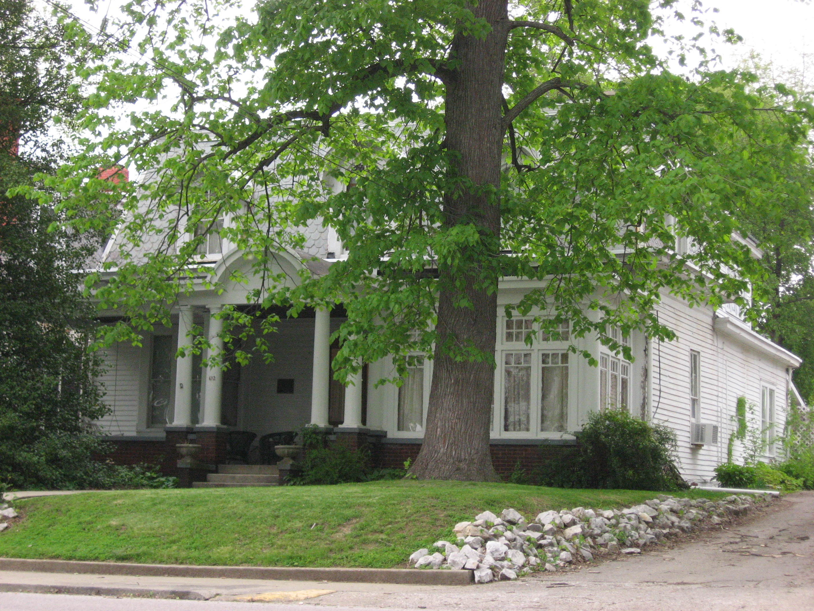 Front and eastern side of the Dr. John A. Scudder House, located at 612 E. Main Street in Washington, Indiana, United States. Built in 1860, it is listed on the National Register of Historic Places.